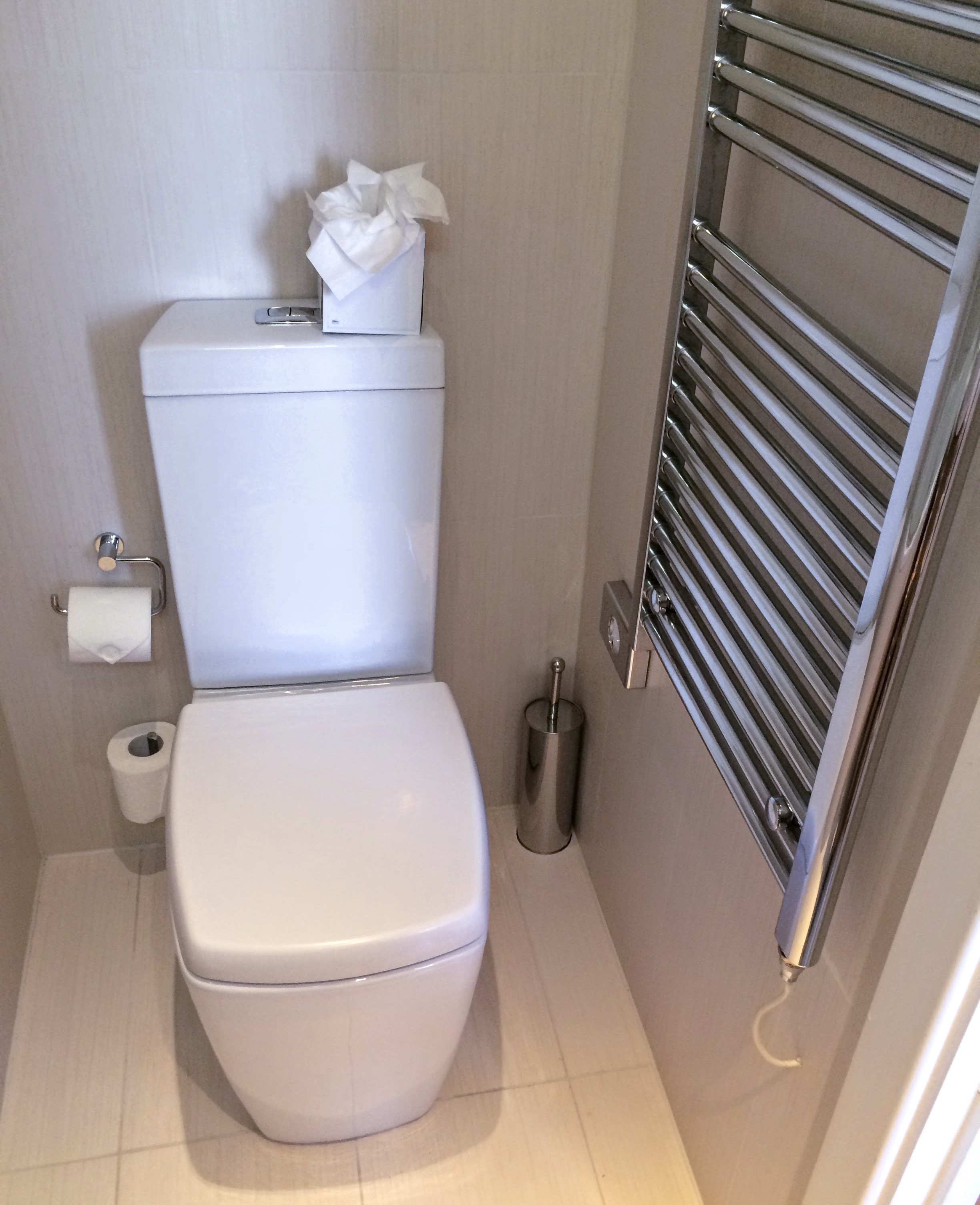 A Toilet